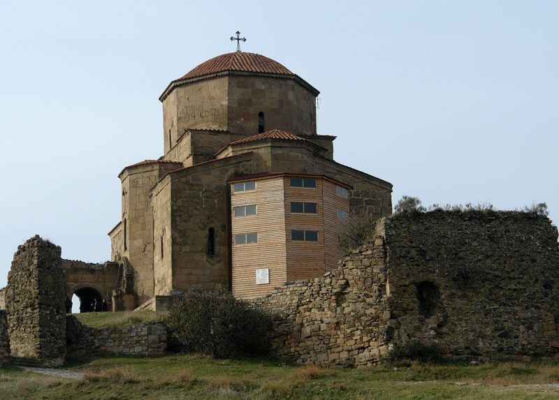 Cross Monastery in Mtskheta